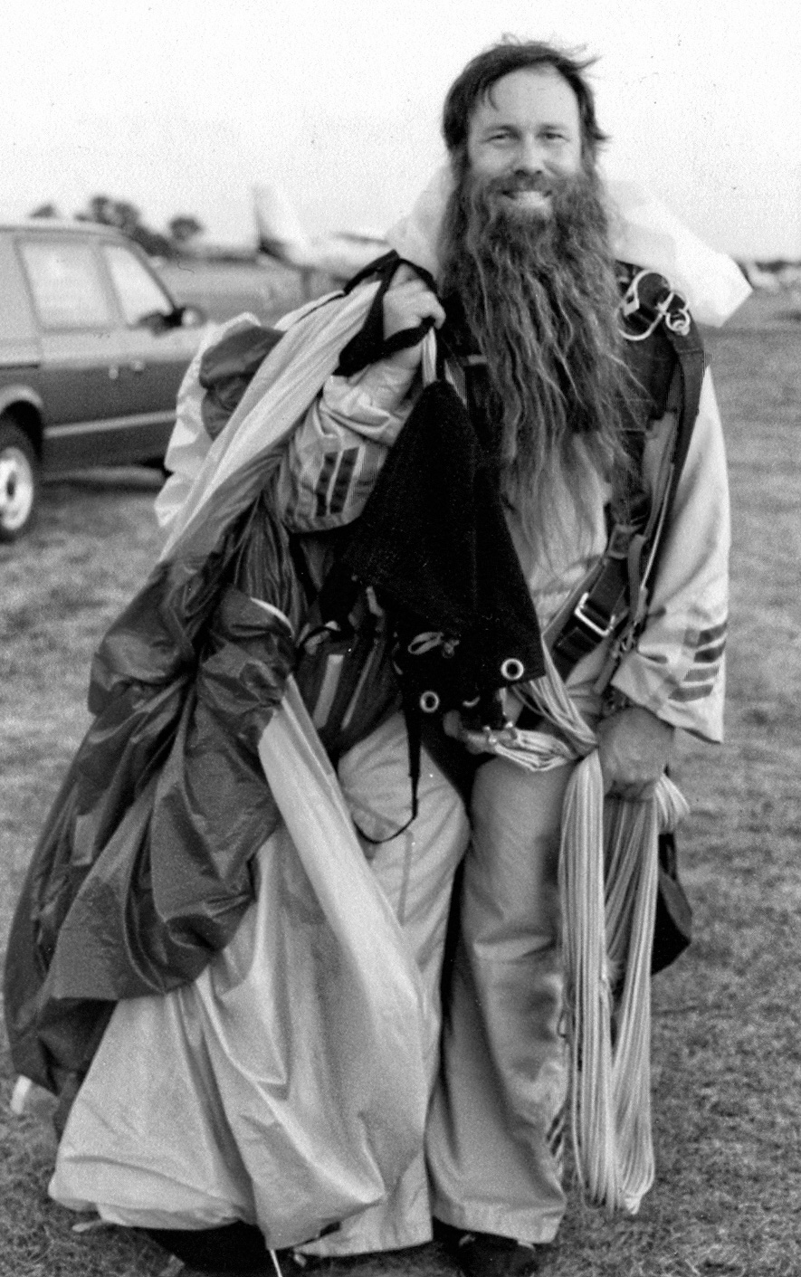 Bill Booth after landing a tandem parachute jump